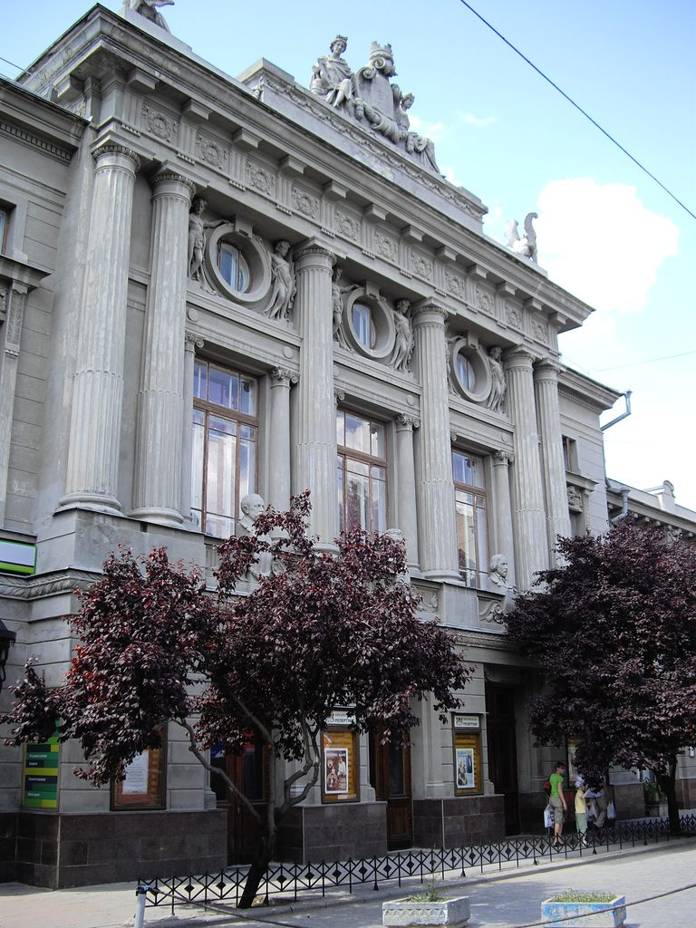 Simferopol. Russian Theatre. 1911.